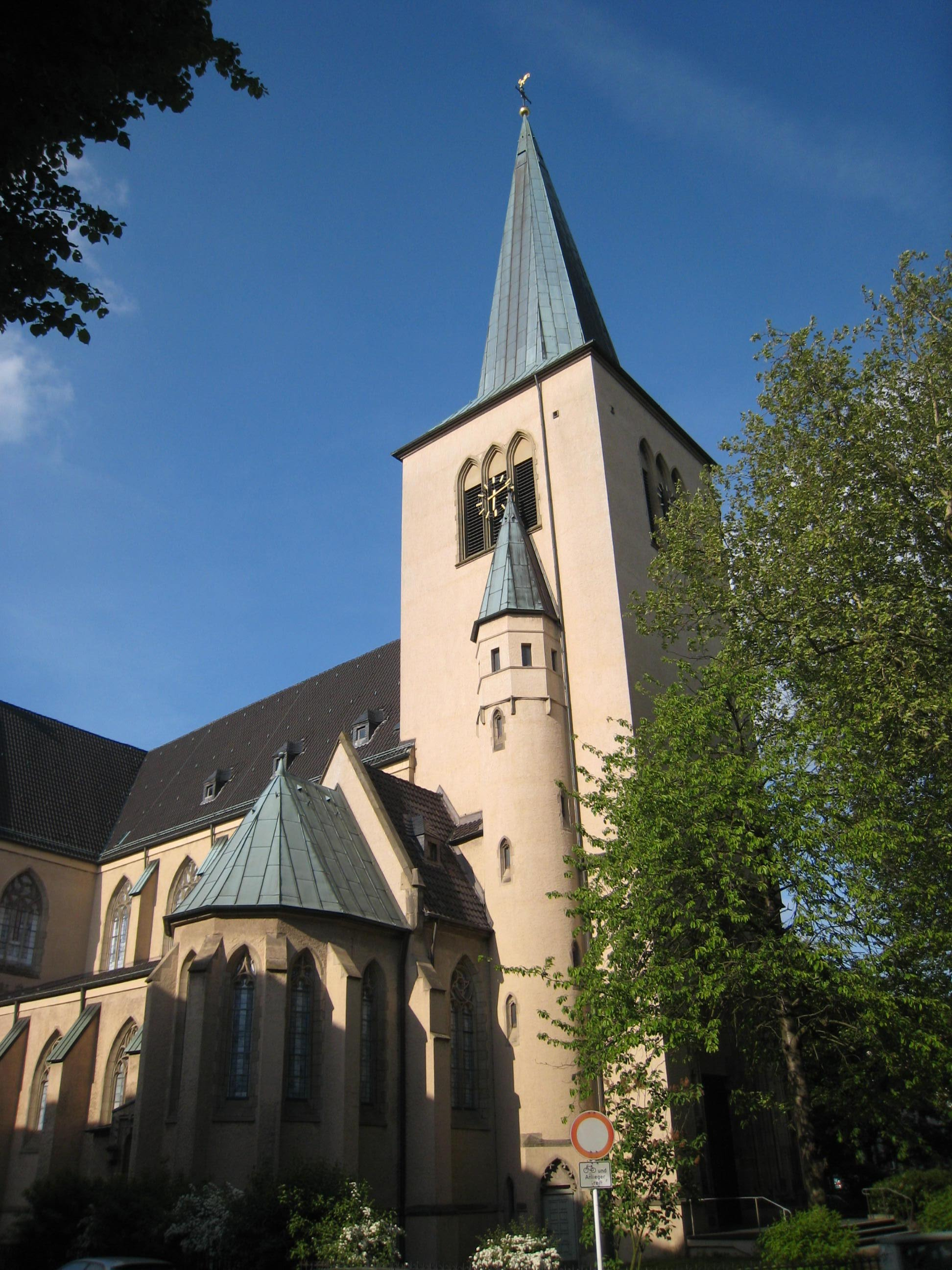 St.Barbara Dortmund Eving